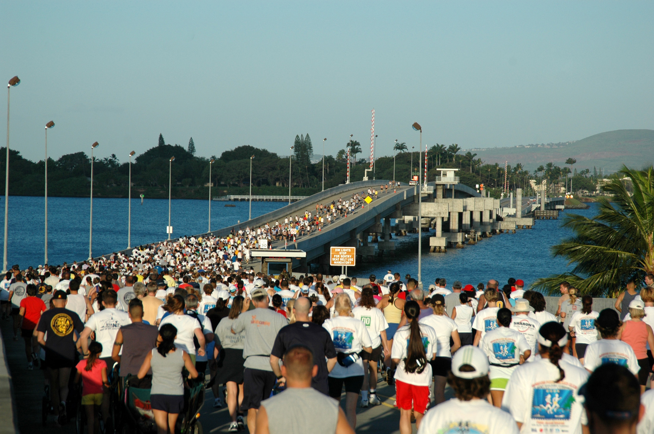 Pearl Harbor, Hawaii (April 8, 2006) - More than 1,400 military and civilian runners make their way across the Adm. Bernard "Chick" Clarey Bridge during the 2006 Ford Island 10k Bridge Run at Pearl Harbor. Since 1997 the Ford Island Bridge Run has been the largest 10k run and the third largest running event overall for the island of Oahu. This year the event generated $688.00 for the Navy Marine Corps Relief Society and remains a popular athletic event available to both military and civilian runners. U.S. Navy photo by Photographer's Mate 1st Class James E. Foehl (RELEASED)